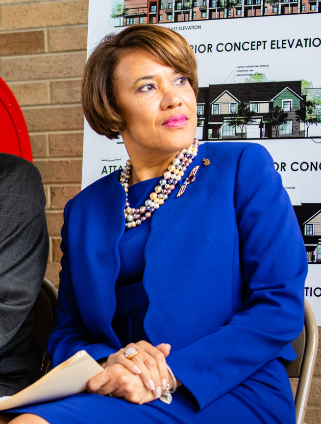 Karen Weaver, mayor of Flint, Michigan, in July 2018